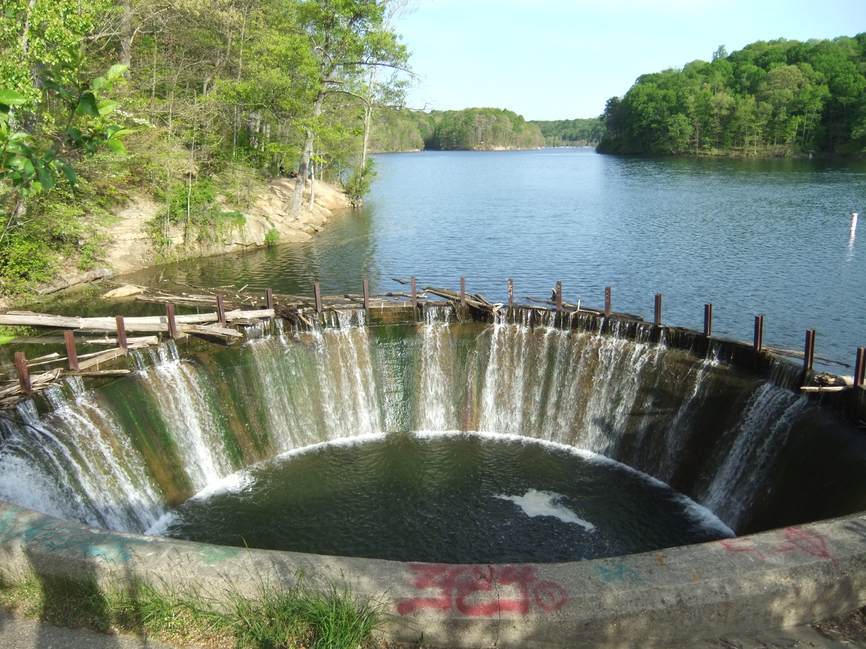 Griffy Lake, Bloomington, Indiana. Photos taken on or near the dam at the western end of the lake.